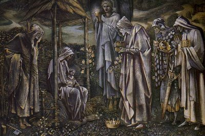 The Star of Bethlehem, design for tapestry The Adoration of the Magi, watercolour and bodycolour heightened with gold, 64.5 x 98.5 cm